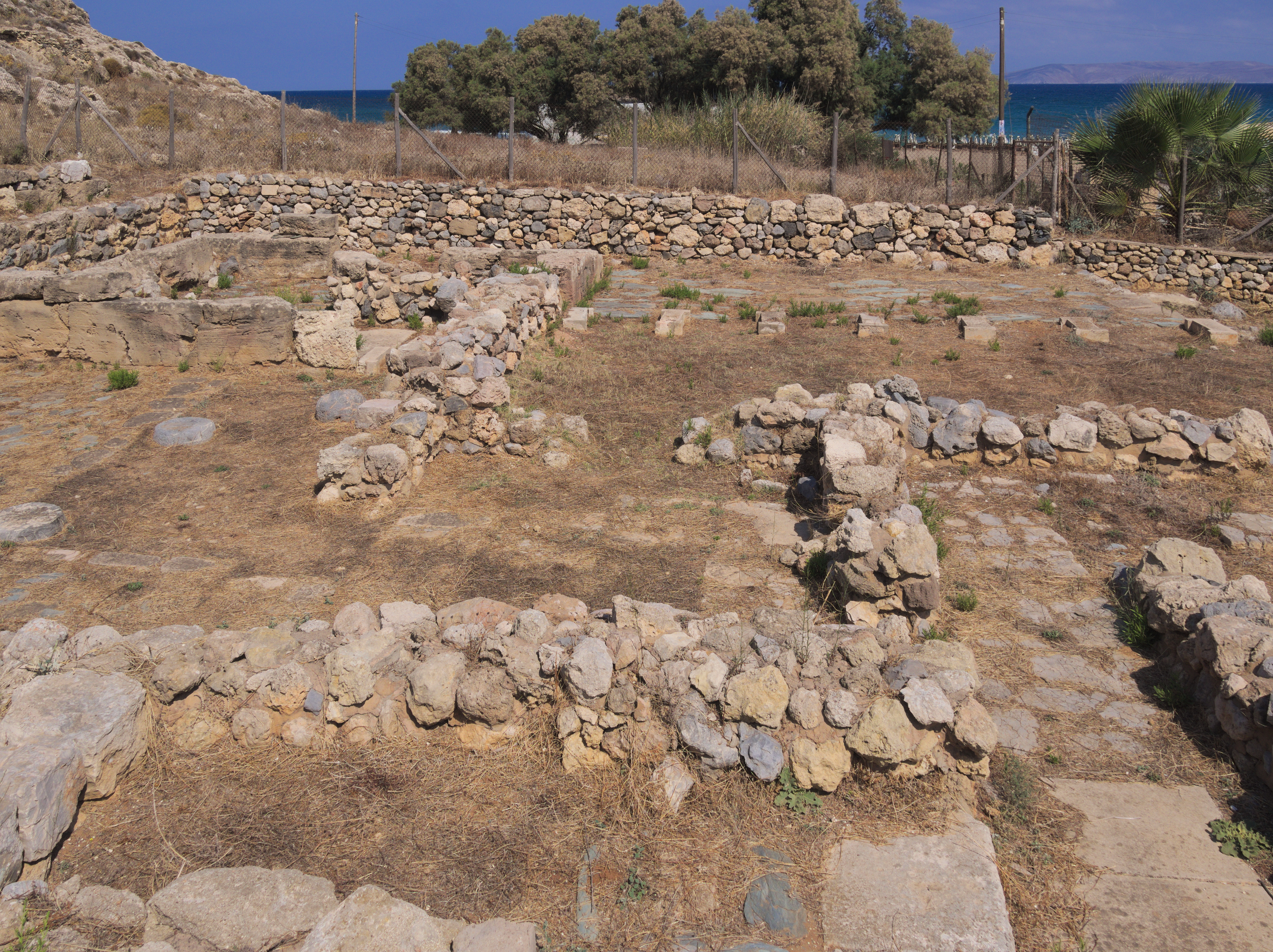 View of the Villa of the Lilies (due to the fresco discovered), Amnisos, dating from the 17th century BC.